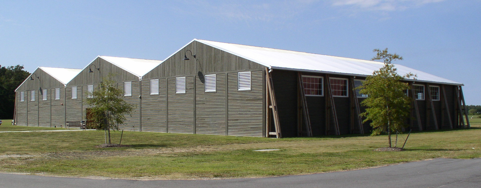 Replica World War I hangar at the Military Aviation Museum